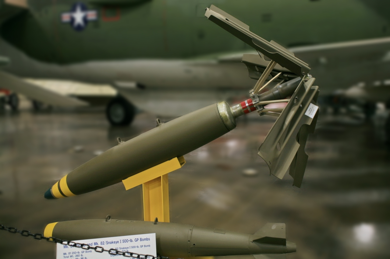 Mk. 81 250-lb and Mk. 82/Snakeye I 500-lb. GP Bombs: The Mk. 81 250-lb., Mk. 84 500-lb. General Purpose (GP) Bombs were designed as a new series of low-drag bombs. The explosive was either TNT (1 yellow noseband), Amatol (2 yellow nosebands), or Tritonal (3 yellow nosebands). These bombs were used extensively throughout the Vietnam War and were carried on most attack, bomber and fighter aircraft of the day. The difference between the standard free fall MK. 82 and the MK. 82/Snakeye is the Mk. 15 Tail Retarding Device. This device was used in low-level ground attacks and slowed the descent of the bomb so that the attacking aircraft could clear the blast area.